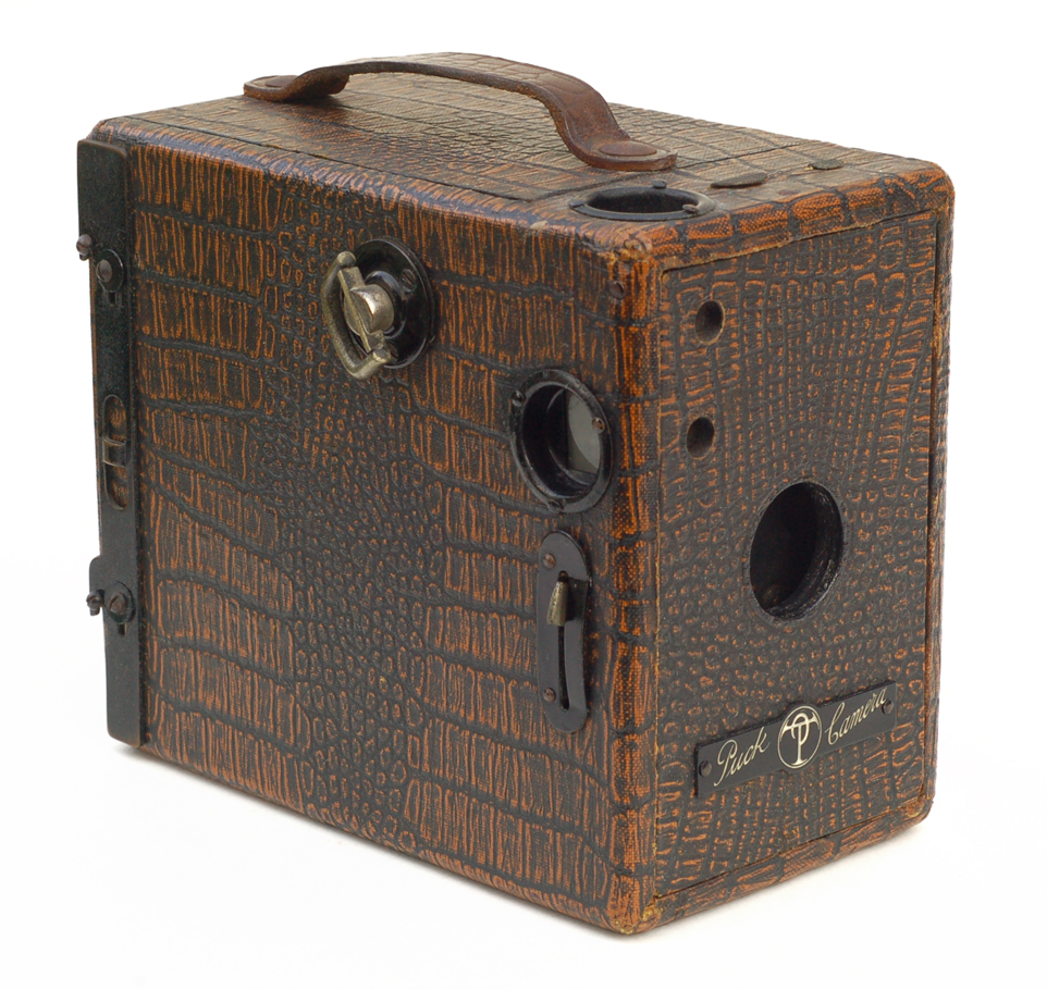 This gorgeous box camera was made c1925 by British manufacturer Thornton-Pickard. It's a simple camera, but ruggedly constructed of wood (covered with faux alligator) with brass fittings. The wood is painted flat black on the inside, but judging by the grain, it looks like mahogany. Thornton-Pickard also made a camera called the Stereo Puck (which looks nothing like this camera), but the non-stereo Puck is obviously not a common camera; I could find but one online source of information about it, and the collector from whom I purchased this example told me it was the only one he had ever seen. I have seen photos of two other examples, both of which have a different hinge/latch configuration than this one. Those examples have hinges where the latch is on mine (the black bar on the side, at the rear). On mine, the covering serves as the hinge. One of those other examples can be seen here at Eric Evans' excellent website. Eric has an incredible, magnificent collection, consisting mostly of British wood & brass cameras made before 1914. Even if you're not a collector, you should really check it out